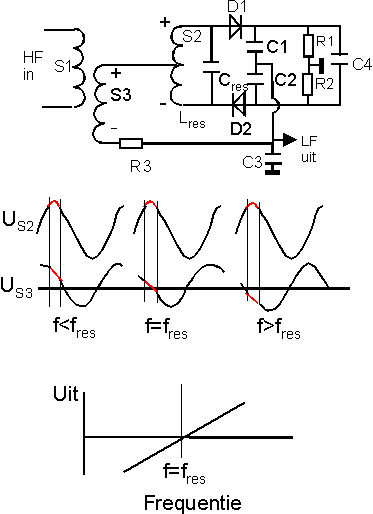 Ratio detector circuit diagram and waveforms.